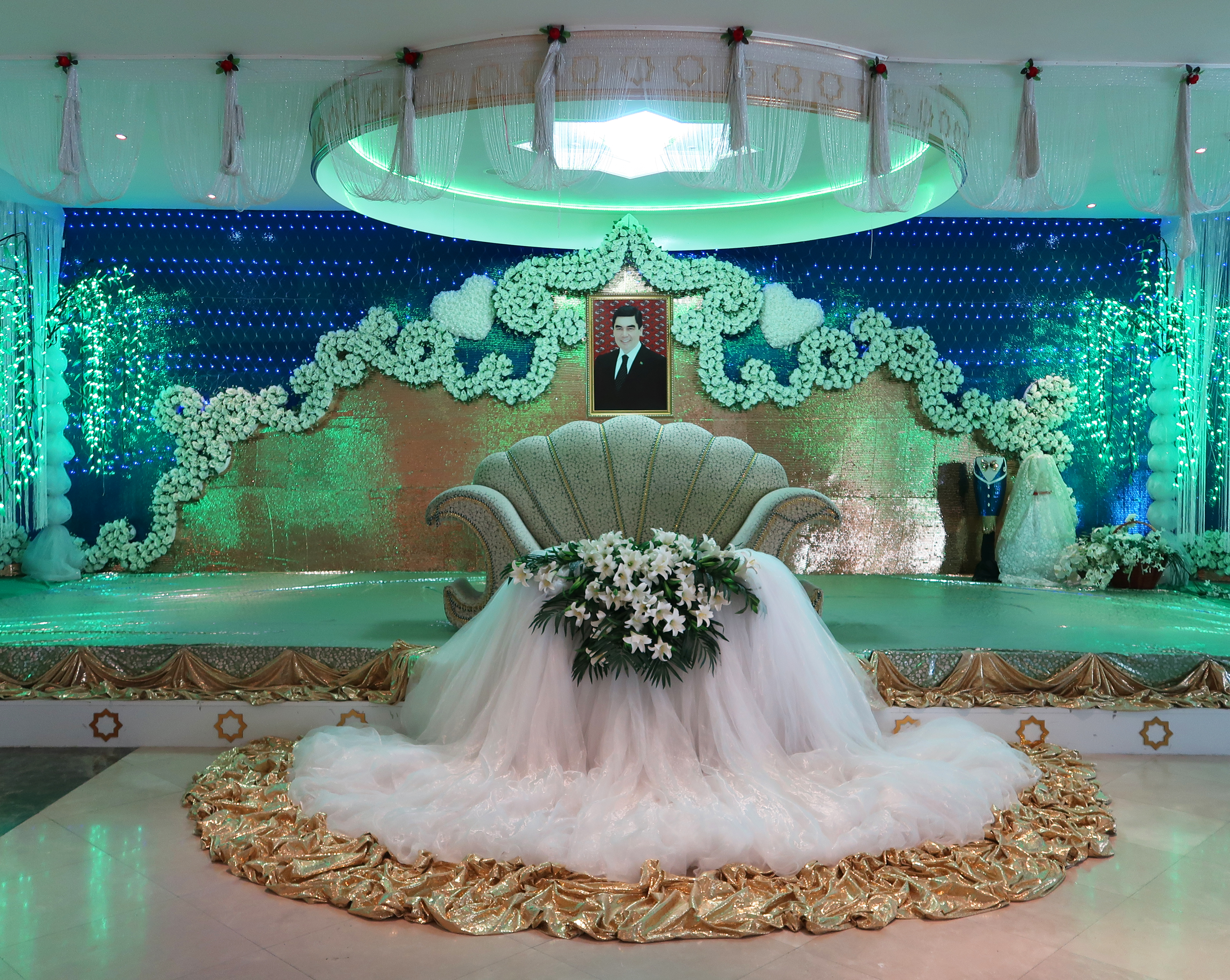 Banquet Hall at the Wedding Palace